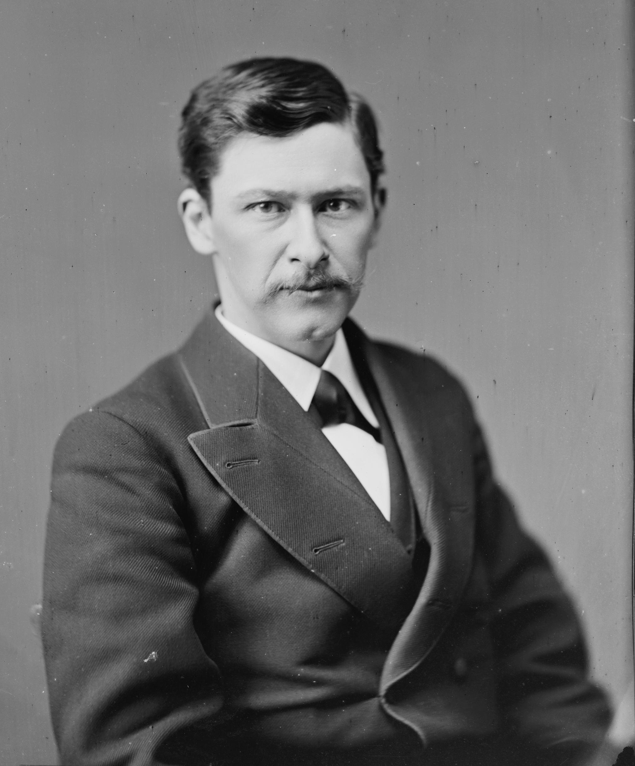 William Stenger. Library of Congress description: "Stenger, Hon. Rep. Wm. Shearer of Pa.".